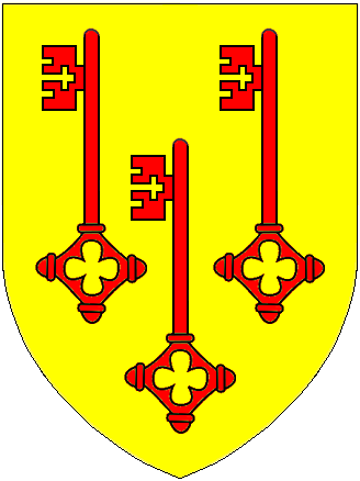 Arms of Clavell (de Claville), of Burlescombe, Devon & Loman's Clavell in parish of Uplowman, Devon etc.: Or, three keys gules (per Pole, Sir William (d.1635), Collections Towards a Description of the County of Devon, Sir John-William de la Pole (ed.), London, 1791, pp.447 & 478). Canting arms from Latin Clavis, a "key".